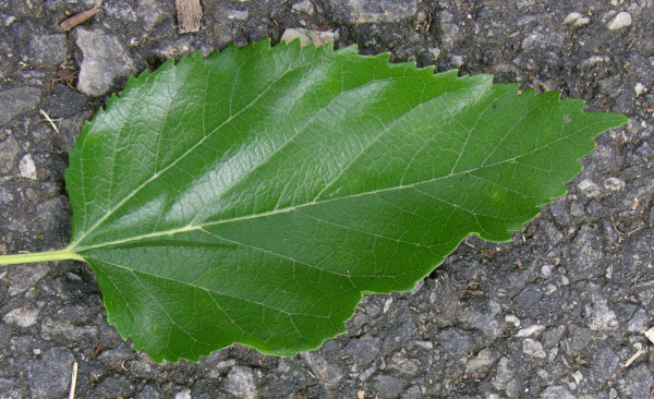 White Mulberry Leaf Topside (Morus alba). Photo by Derek Ramsey (Ram-Man) Species identification performed by G Sternberg and others. Photo taken at the Ridley Creek State Park.